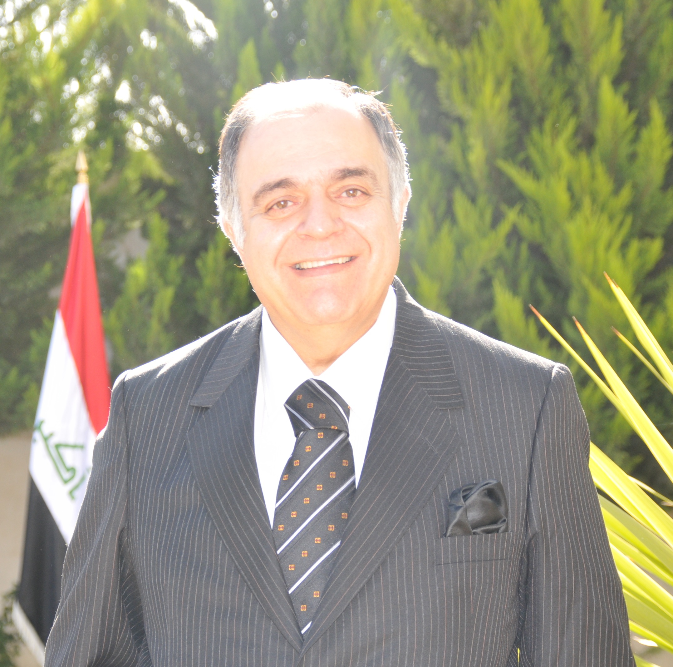 Prof. Dr. Raad Maulood Mukhlis Secretary General - Gathering For Iraq